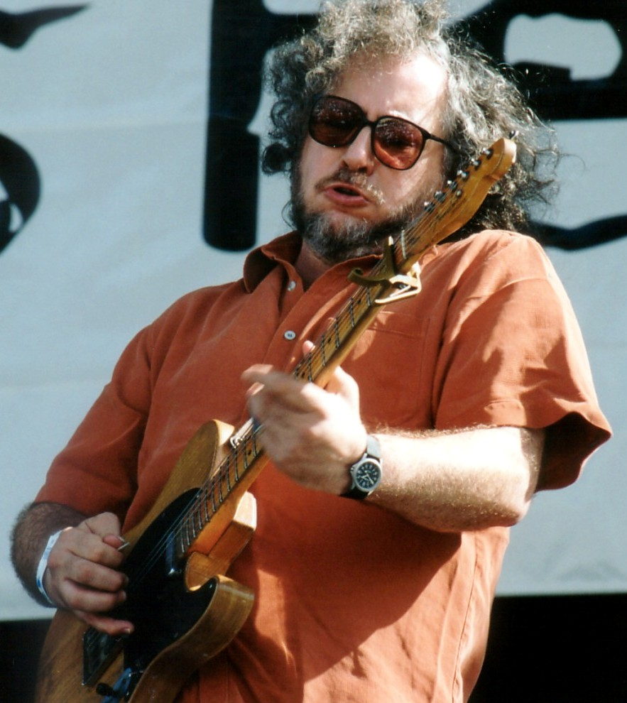 Bob Margolin performing at the 1996 Riverwalk Blues Festival in Fort Lauderdale, FL.